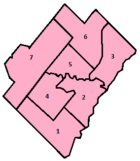 Map of Oakville Ontario's wards for the 2018 municipal election